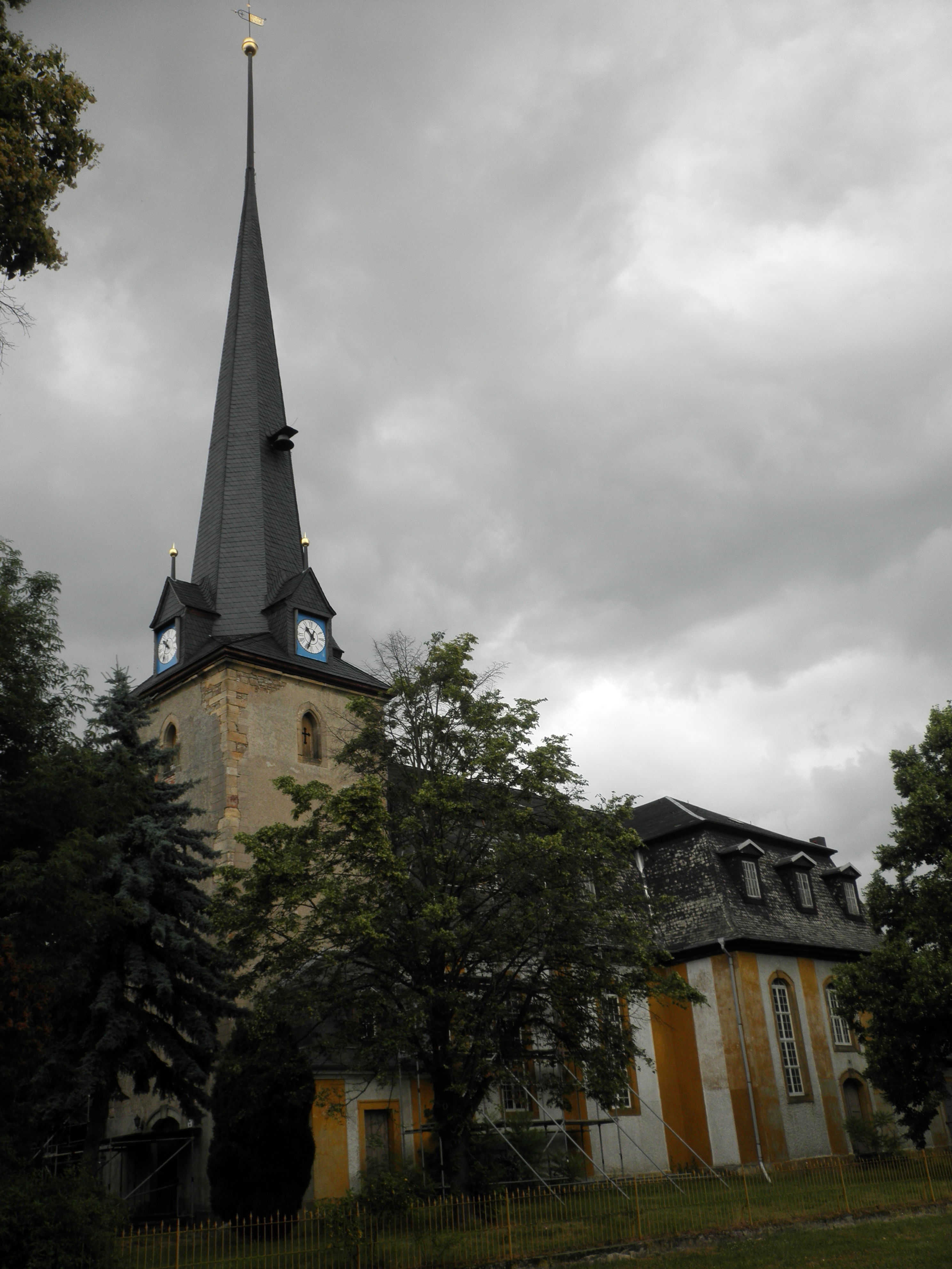 Church in Großrudestedt